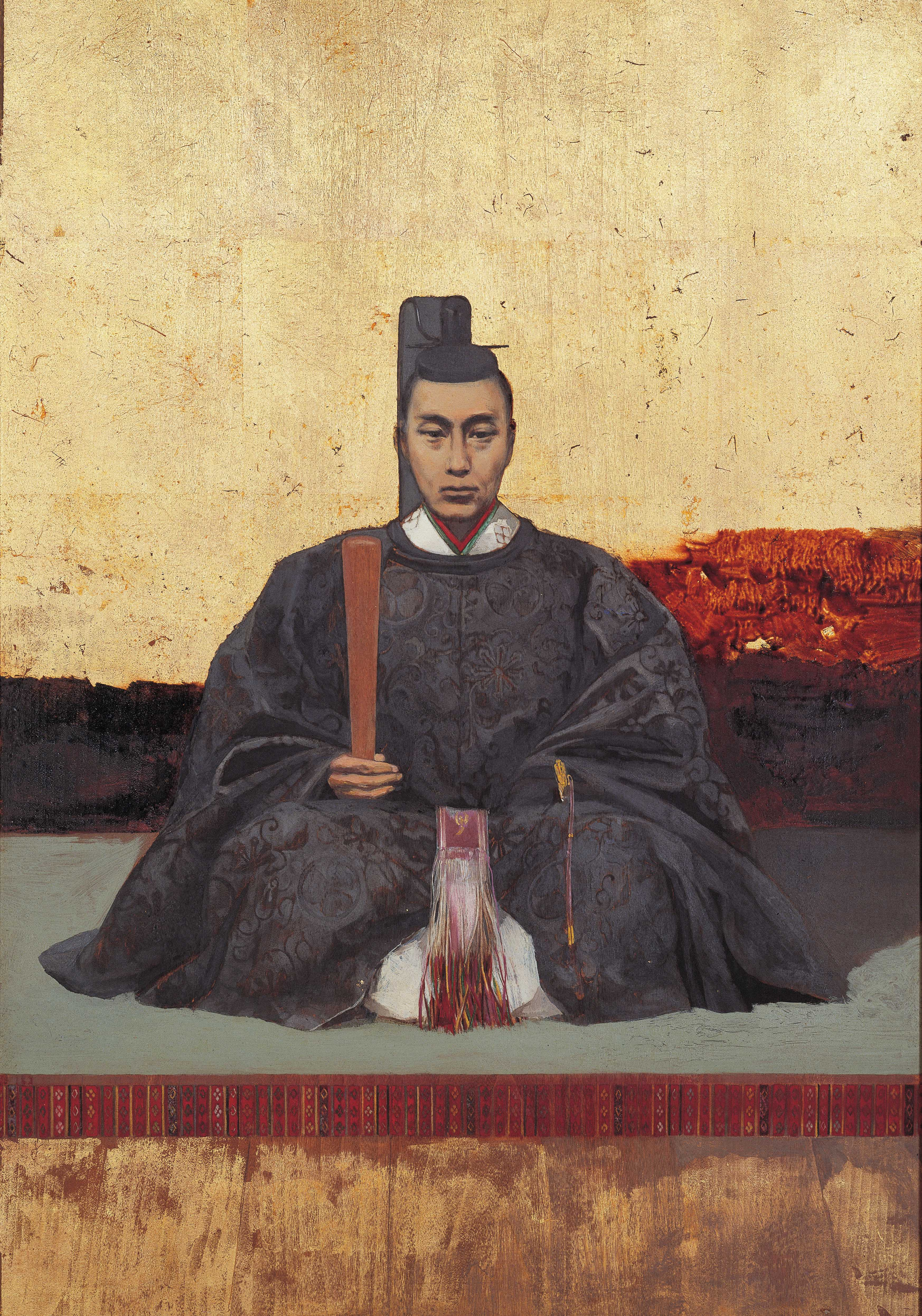 Tokugawa Yoshinobu, by Kawamua Kiyoo, Tokugawa Memorial Foundation